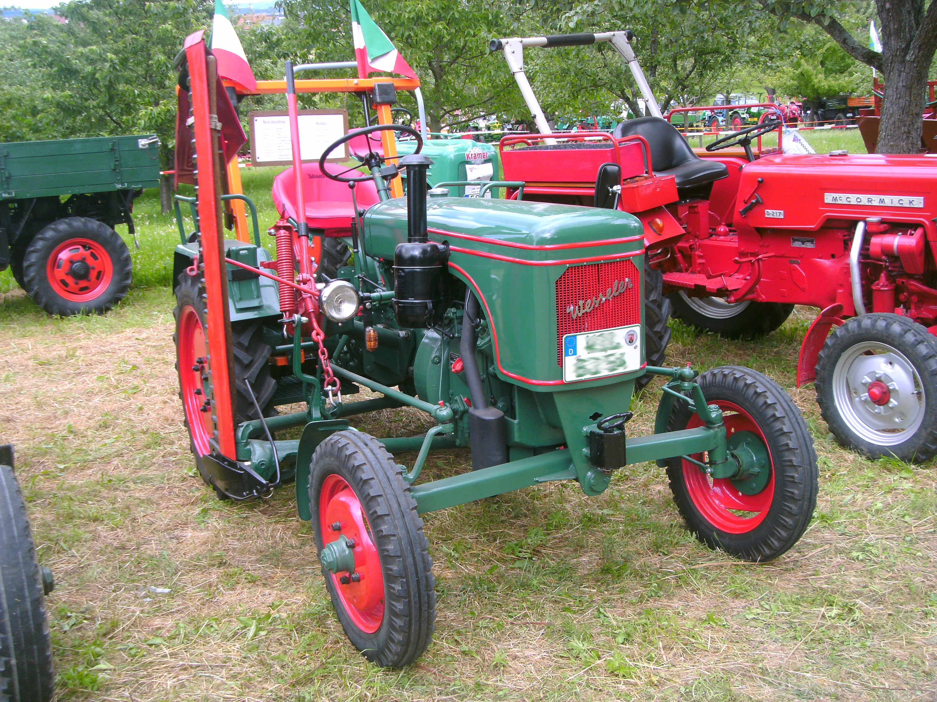 Wesseler WL12, built in 1954, 12 HP